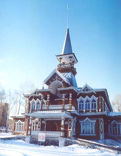 Museum in Kulebaki